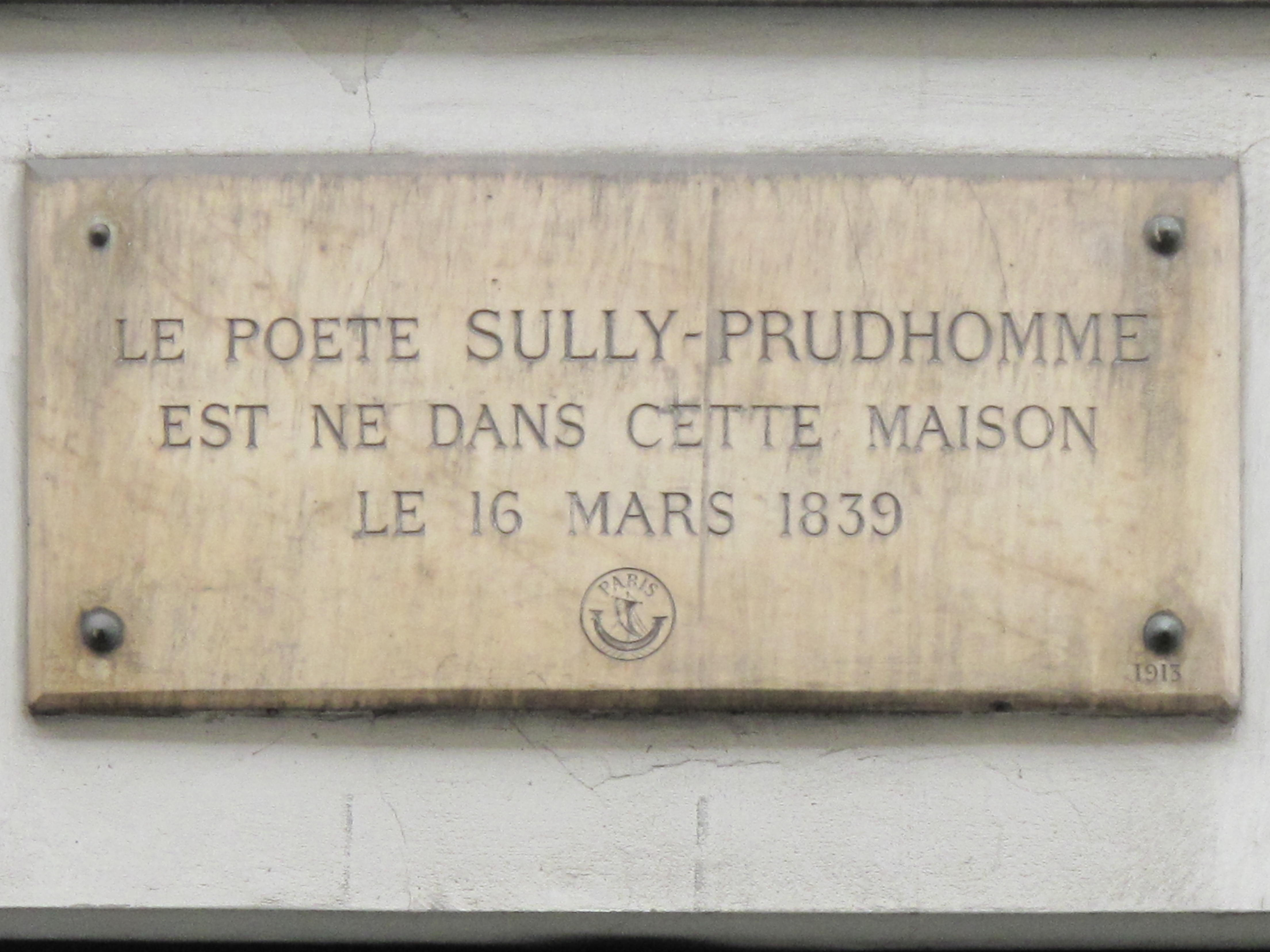 Plaque on the house where was born the French poet Sully-Prudhomme : 34 rue du faubourg Poissonnière, Paris 10th arr.